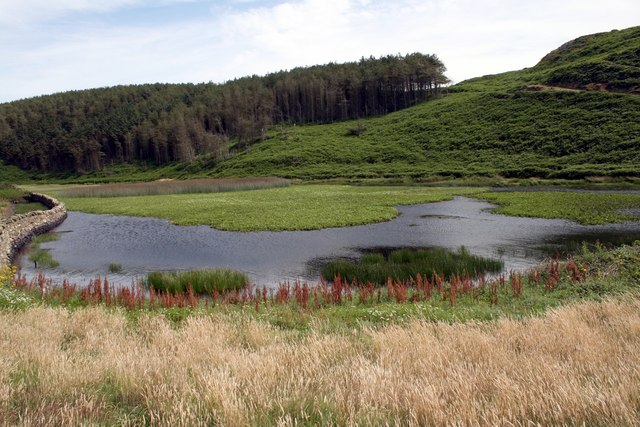 Llyn Y Fydlyn near Ynys Y Fydlyn Looking south east. The name of this small lake, Llyn Y Fydlyn seems to only appear on the 1:25000 os map.